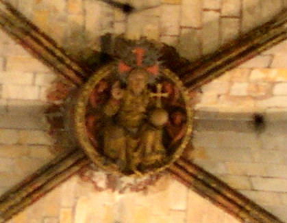 Keystone by Pere Joan, cathedral of Barcelona